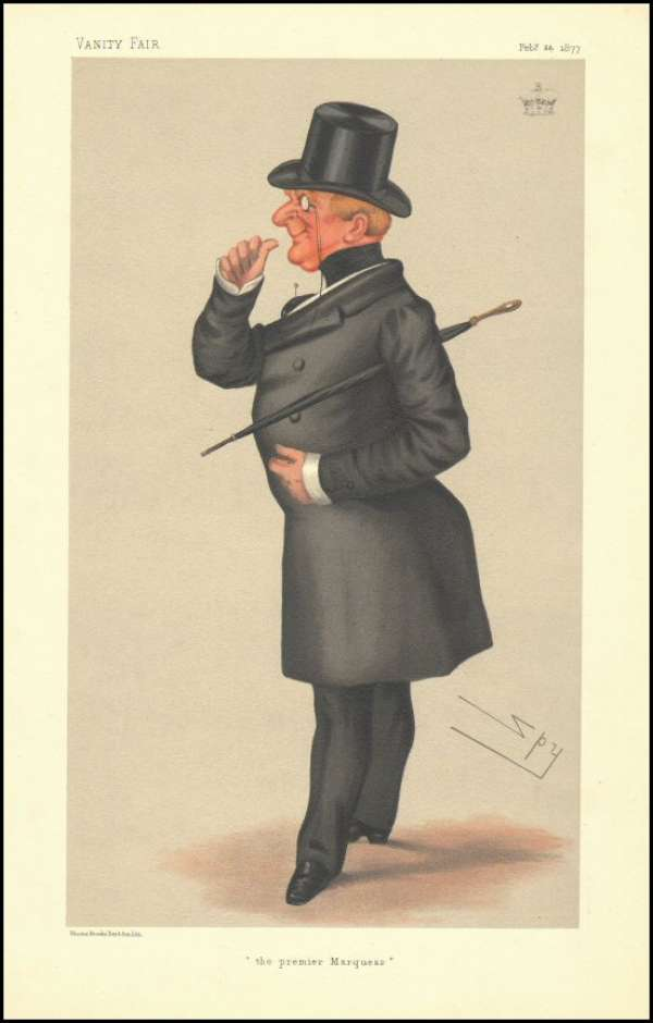 Caricature of John Paulet (1801-1887), 14th Marquess of Winchester. Caption read "the premier Marquess".